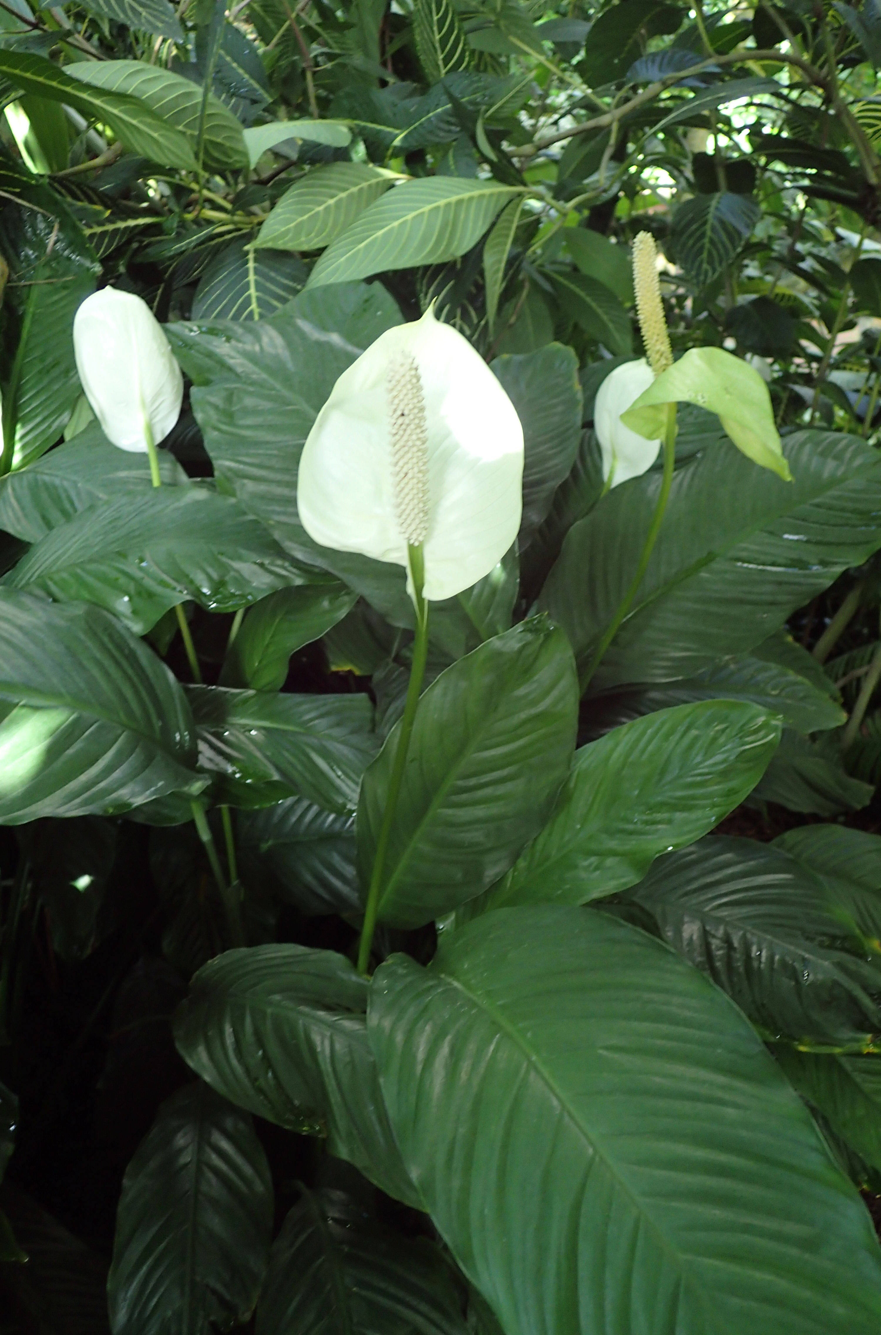 Spathiphyllum wallisii in Boltz Conservatory, Madison, Wi